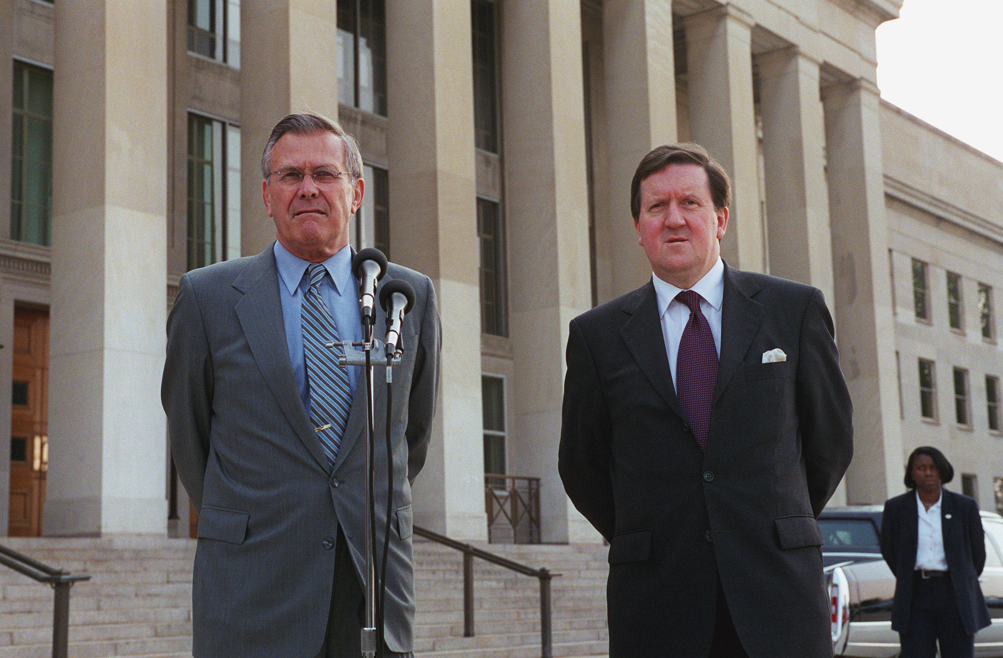 Secretary of Defense Donald H. Rumsfeld (left) and NATO Secretary General Lord George Robertson (right) listen to a reporter's question during a joint media availability following their Pentagon meeting on June 20, 2001.